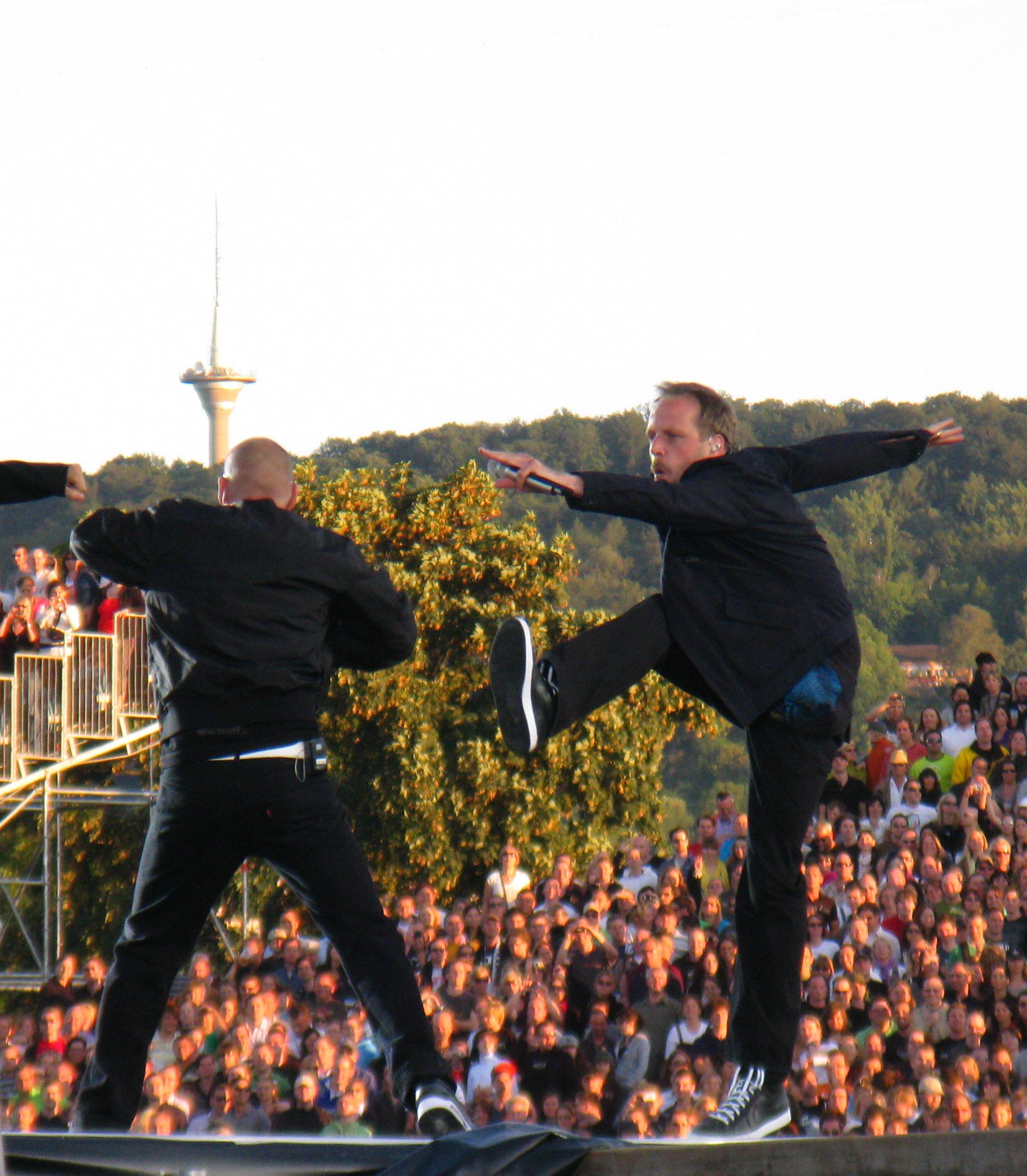 "Heimspiel" - 20 years anniversary gig of Die Fantastischen Vier at Cannstatter Wasen in front of 55.000-60.000 people. From left to right: Thomas D and Smudo.